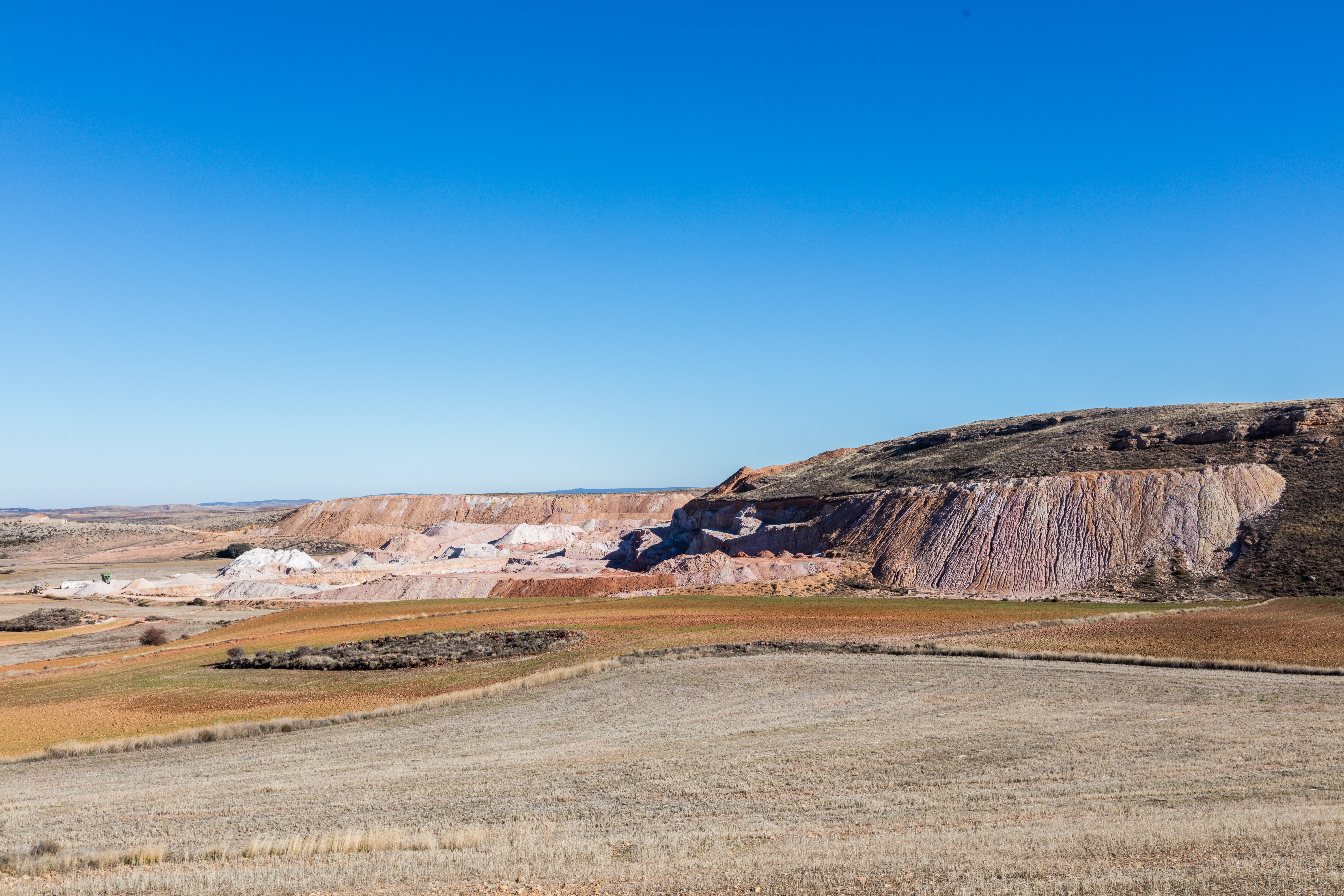 Monforte de Moyuela, Teruel, Spain